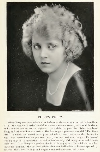 Actress Eileen Percy from Who's Who on the Screen, published by Ross Publishing Co., 1920 [1]